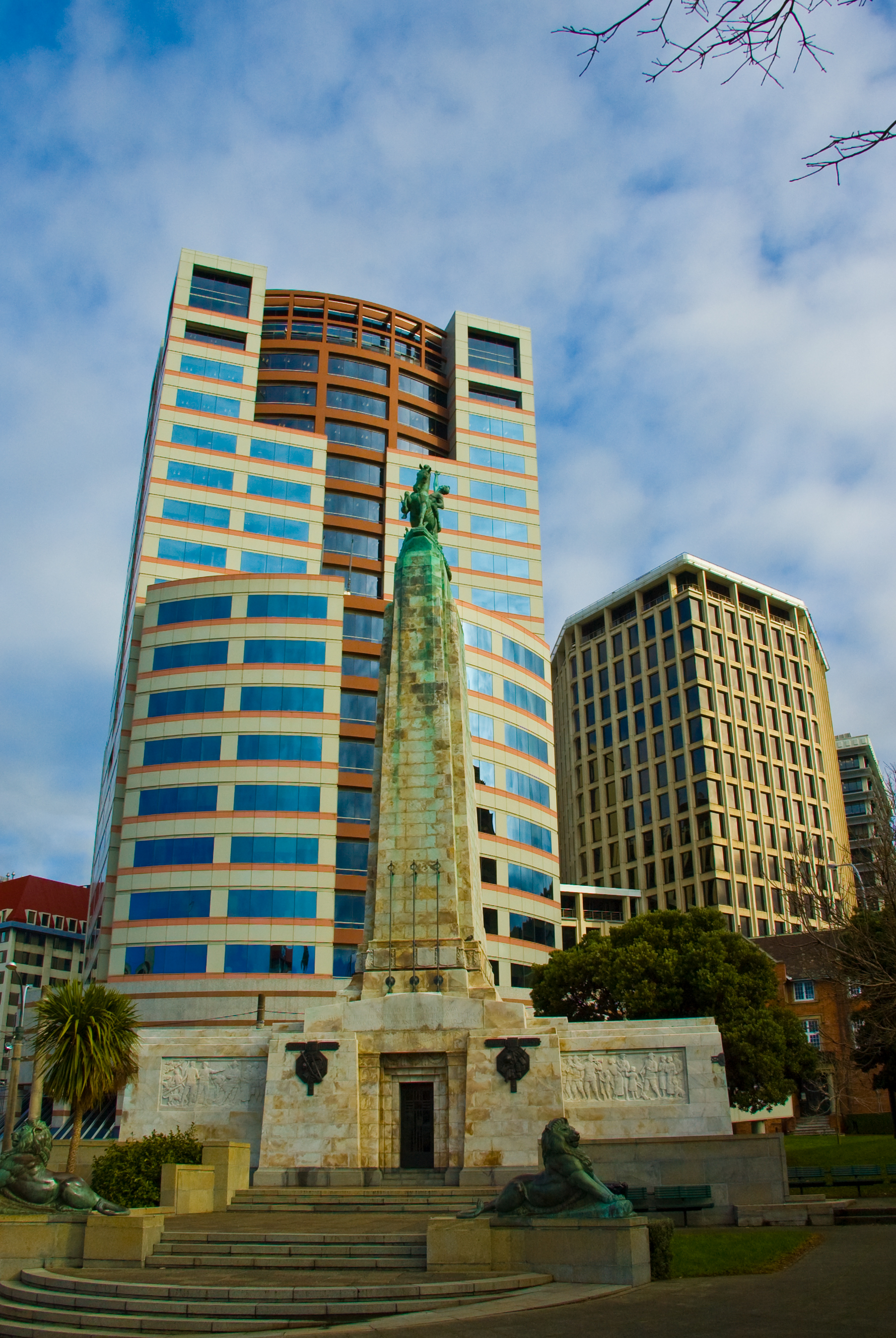 Bowen House and Number 1 The Terrace, Wellington, New Zealand, 1 July 2008